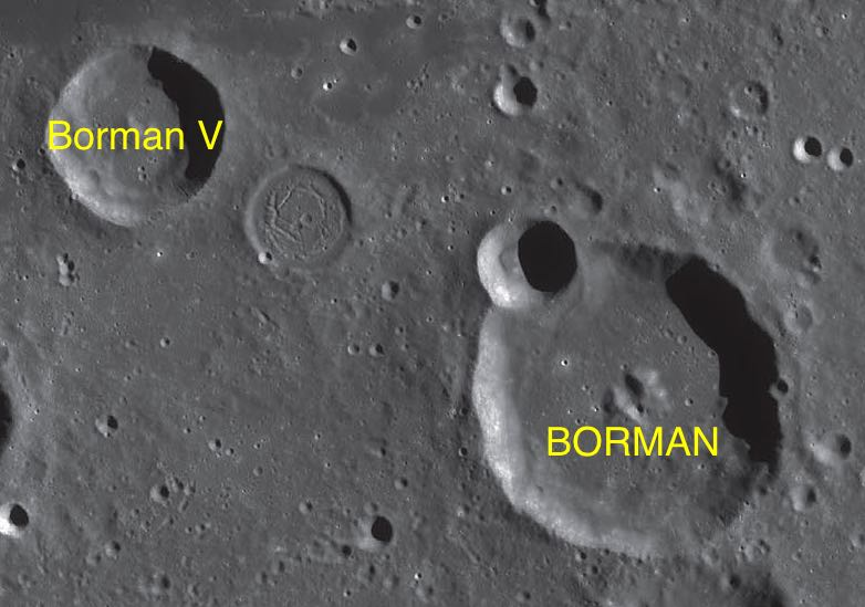 Part of the chart LAC-121 used for the presentation